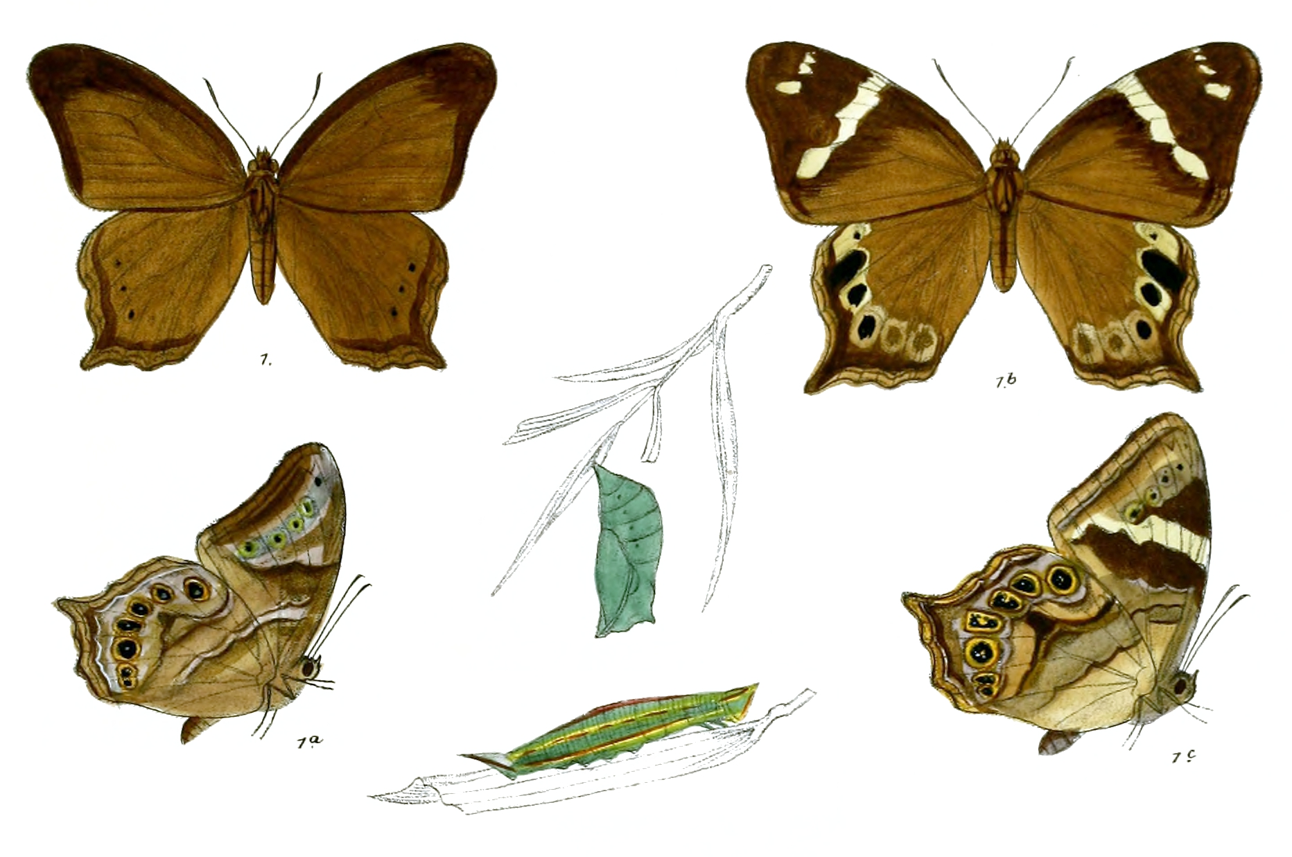 Lethe drypetis